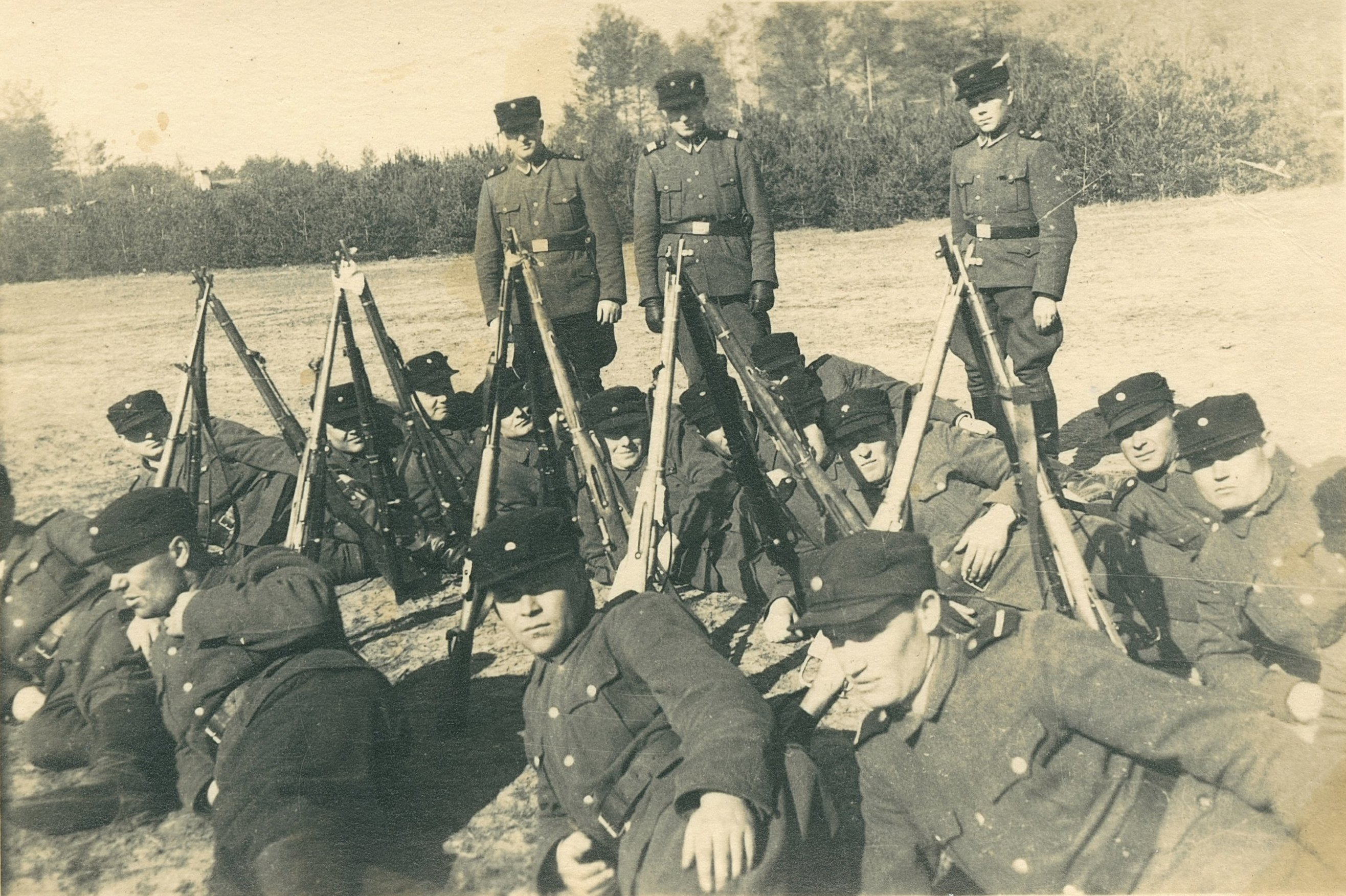 This spring 1943 photo shows a group of auxiliary guards at the Nazi death camp Sobibor in German-occupied Poland. A Holocaust historian said researchers concluded that John Demjanjuk, the retired Ohio auto worker who was tried in Germany for his alleged time as a Sobibor guard, is presumably depicted in this photo.